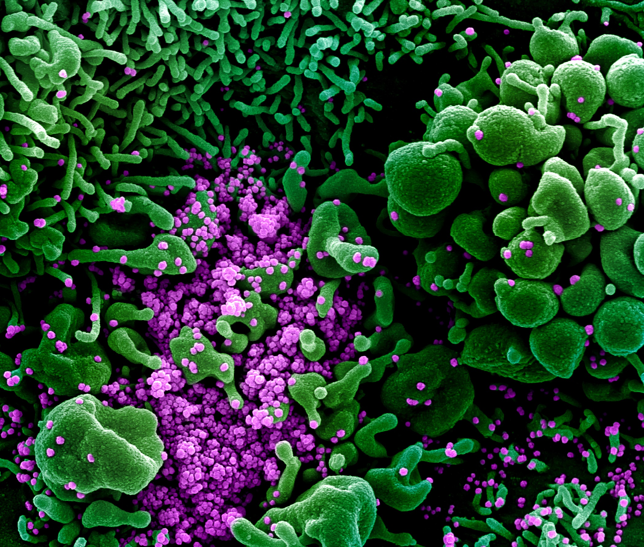 Colorized scanning electron micrograph of an apoptotic cell (green) heavily infected with SARS-COV-2 virus particles (purple), isolated from a patient sample. Image captured and color-enhanced at the NIAID Integrated Research Facility (IRF) in Fort Detrick, Maryland. Credit: NIAID